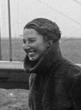 Mari Pepa Colomer by a plane at Canudas airfield Taken by Josep Brangulí (d. 1945) in the 1930s, published after Colomer's death (2004) by the Carreras-Colomer Archive, in England. Archive published in 2015 [1]